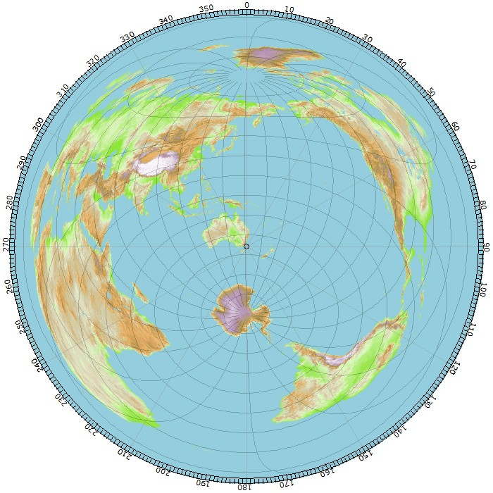 An azimuthal equidistant projection centered on Sydney Australia